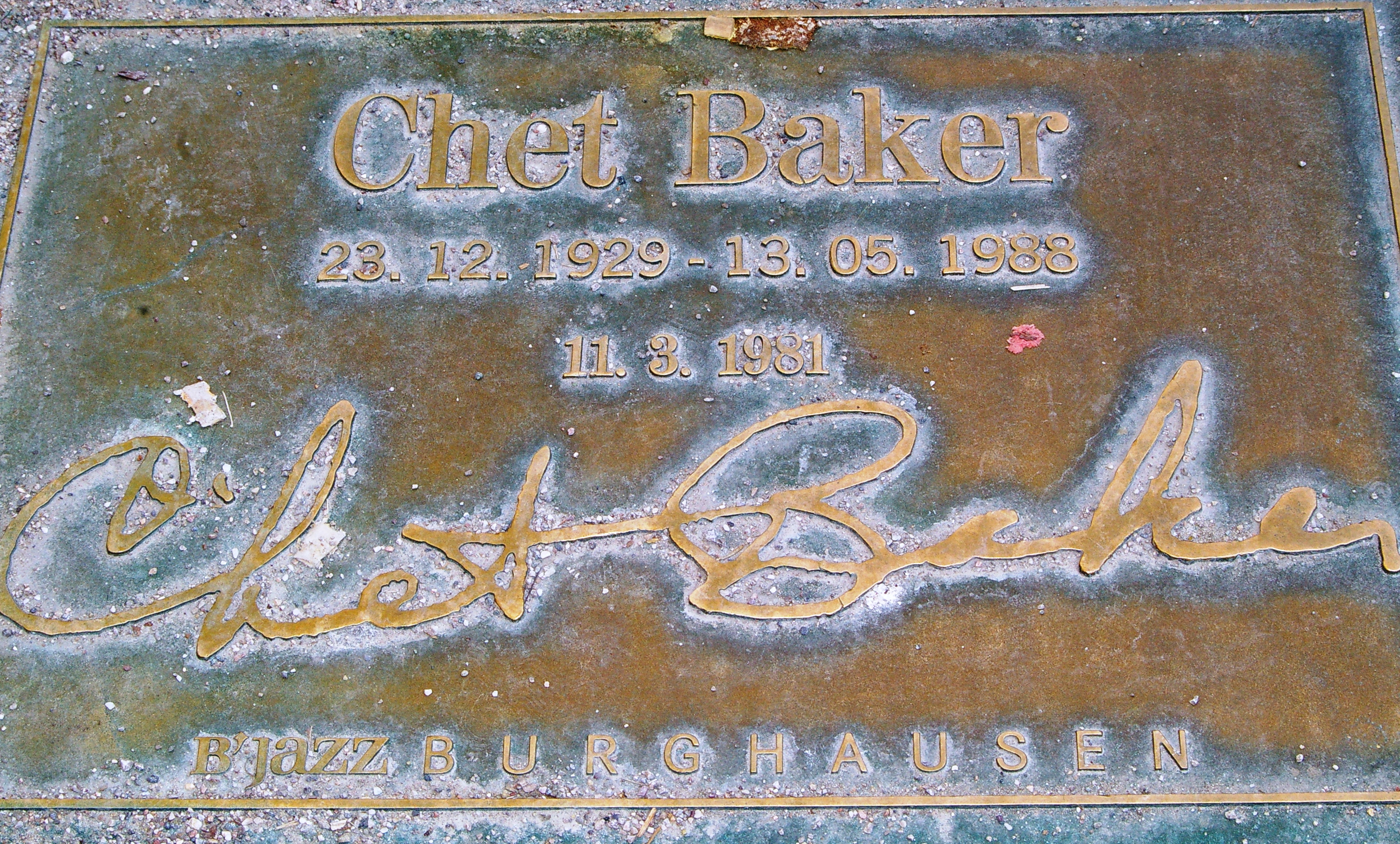 Street of Fame Burghausen